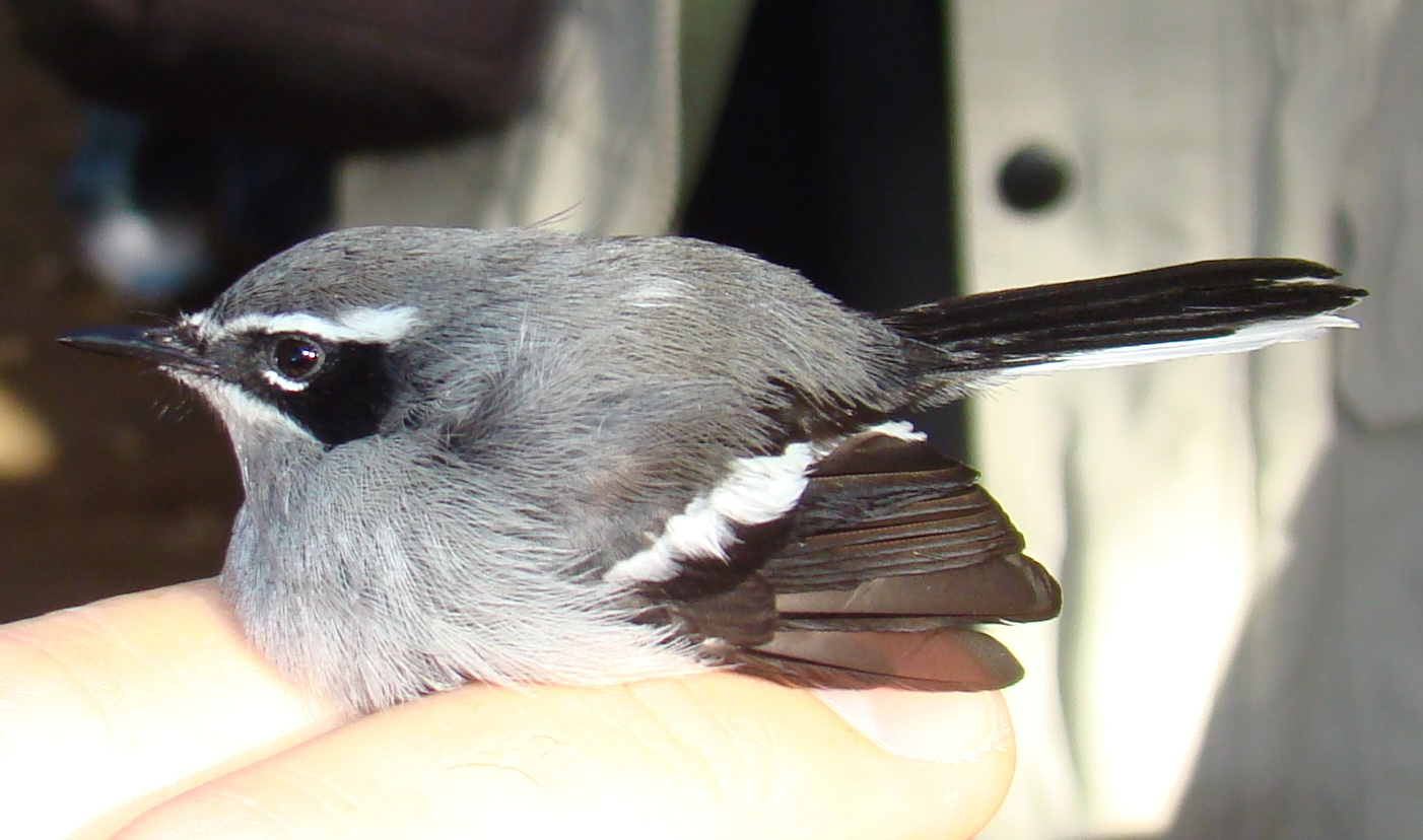 Picture of Fairy Flycatcher Stenostira scita in hand in controlled scientific ringing project